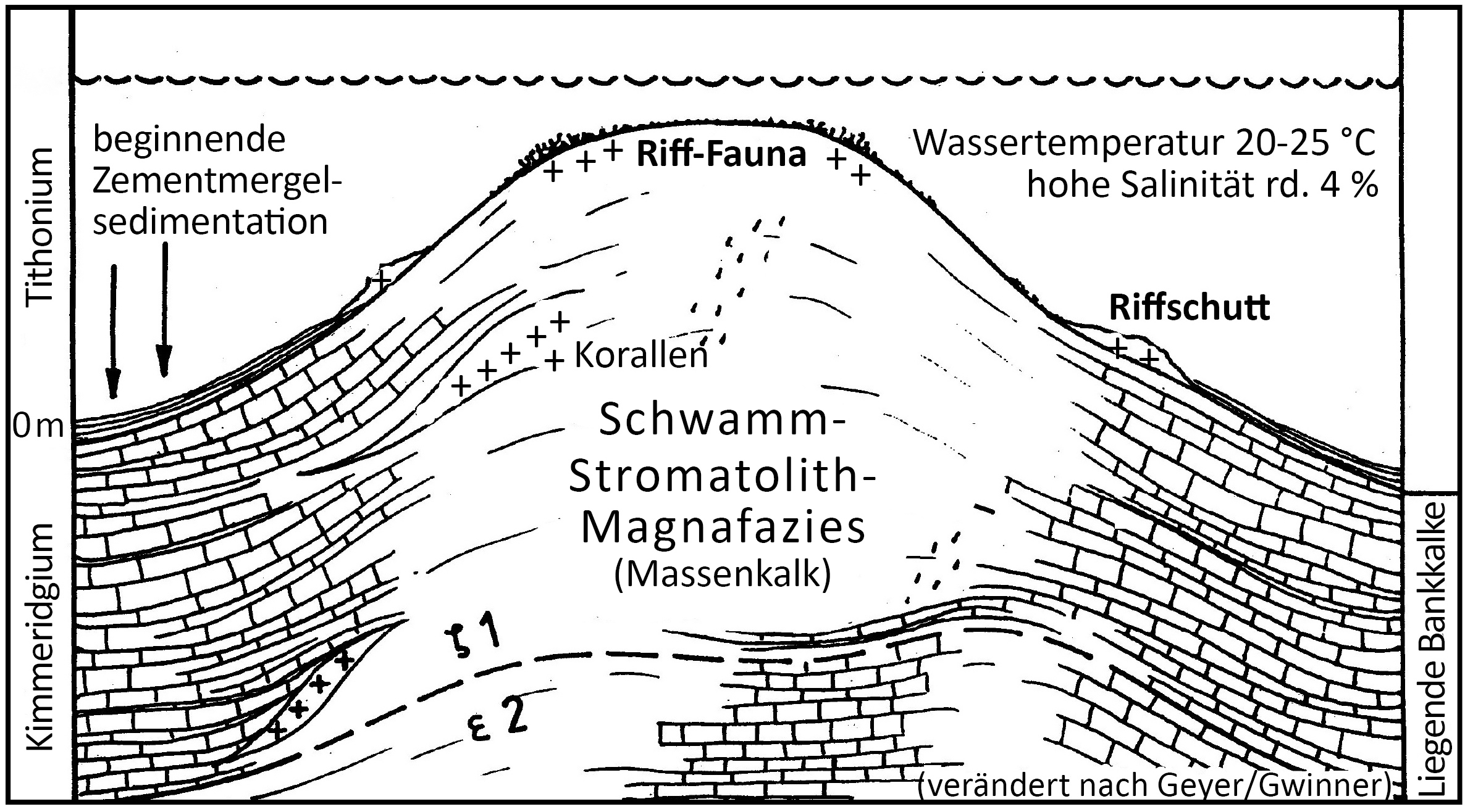 Facies types in the higher Weißjura (Upper Jurassic of southern Germany) after Geyer & Gwinner (1984) with “Massenkalk” (reef facies including fore reef debris) and laterally adjacent “Bankkalk” (thickly bedded limestone). The “+”-marks indicate coral occurrences.